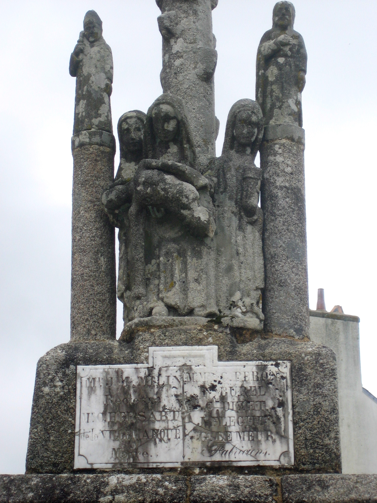 Calvary in Nizon (Finisterre) France